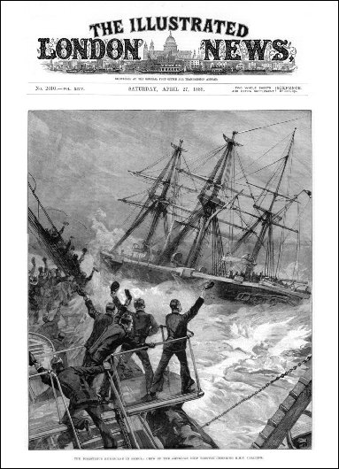 Engraving from the Illustrated London News. Artist's conception of USS Trenton being passed by HMS Calliope during the Apia tropical cyclone at Samoa on 16 March 1889. The crew of USS "Trenton" is cheering HMS "Calliope" as the latter steamed seaward to safety at the peak of the hurricane. Calliope actually passed to Trenton's port, very close aboard.